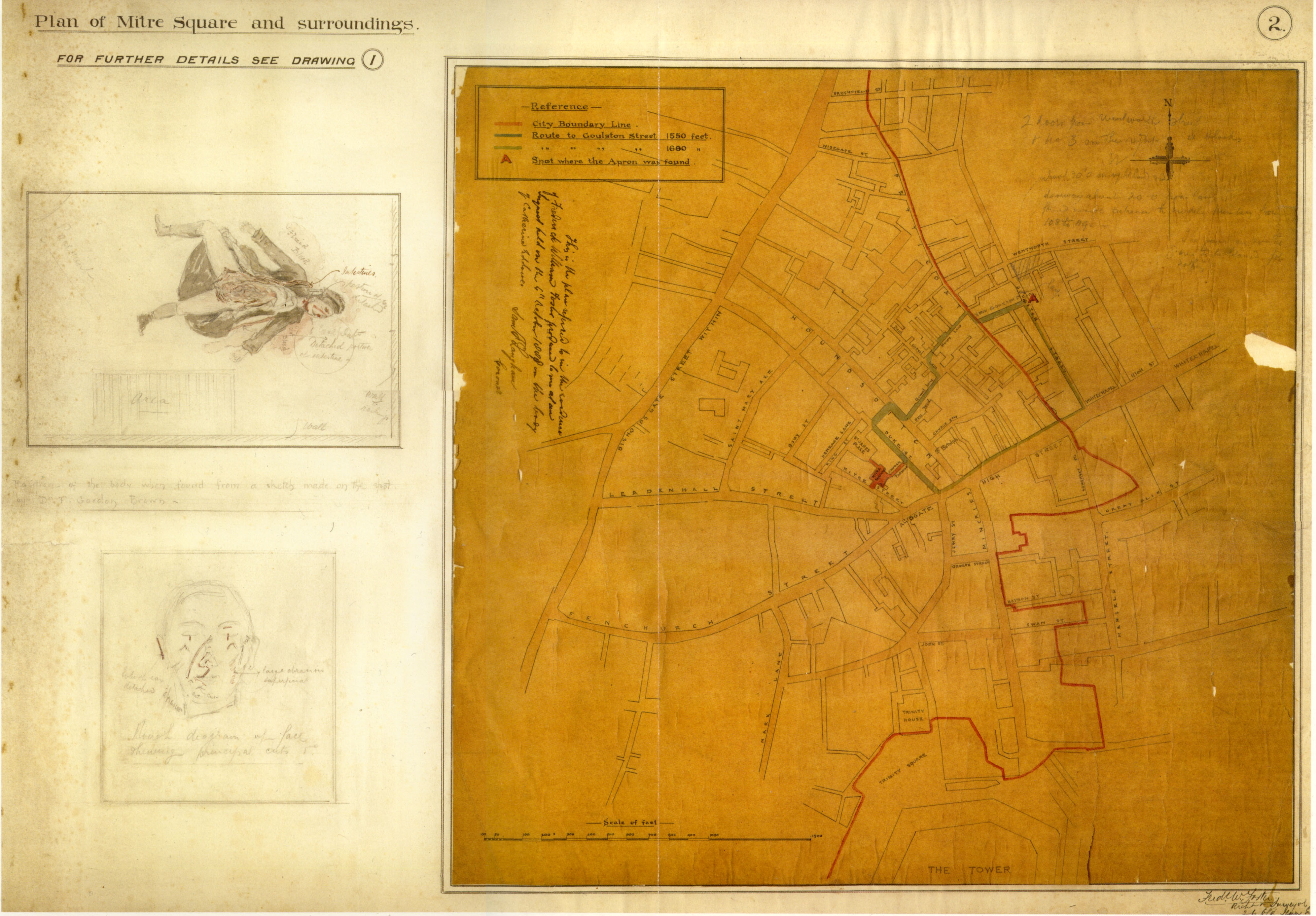 Catherine Eddowes - Plan of Mitre Square 2